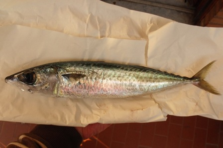 Scomber colias bought on Rome fish market in november 2011.